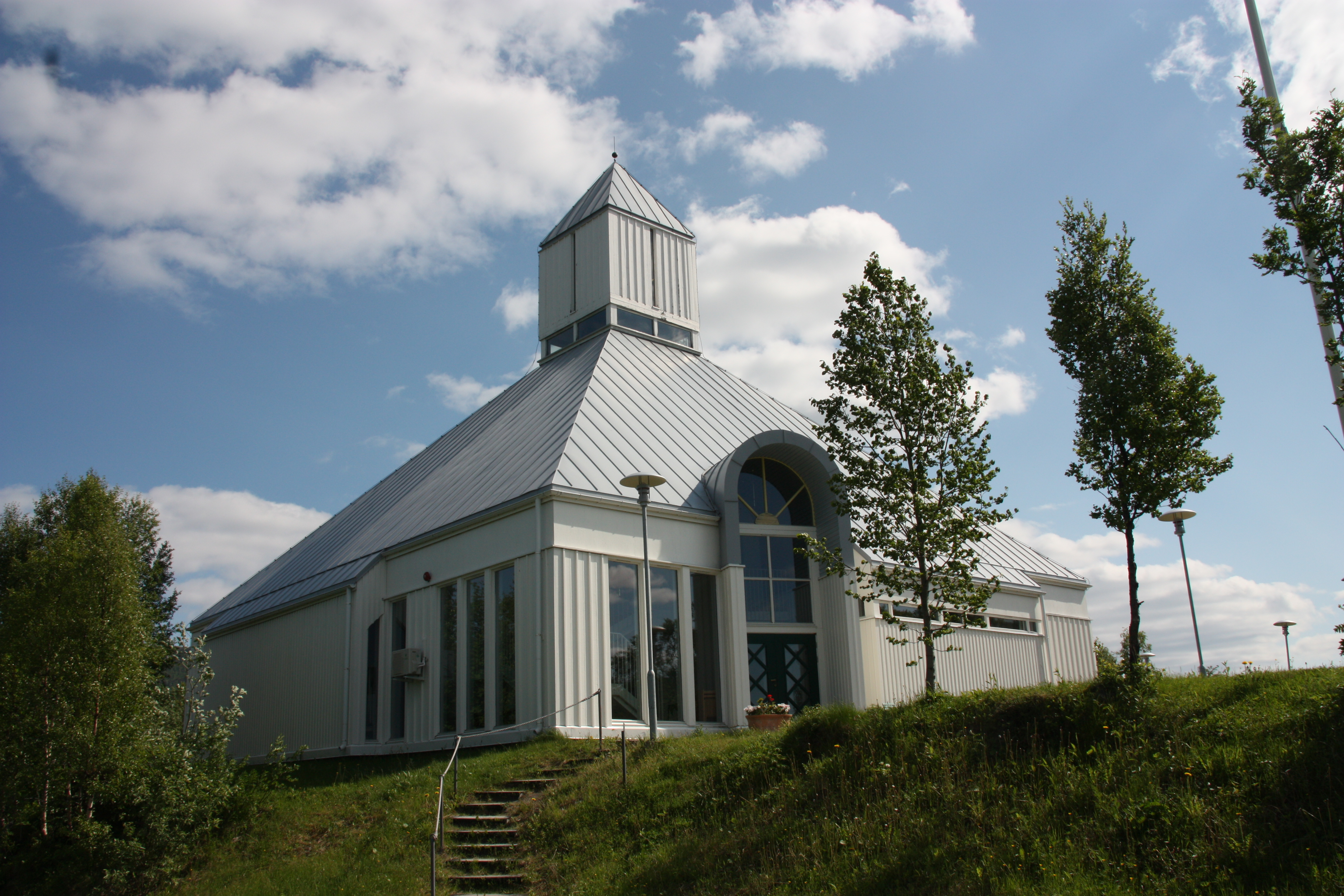 Sørreisa church front.